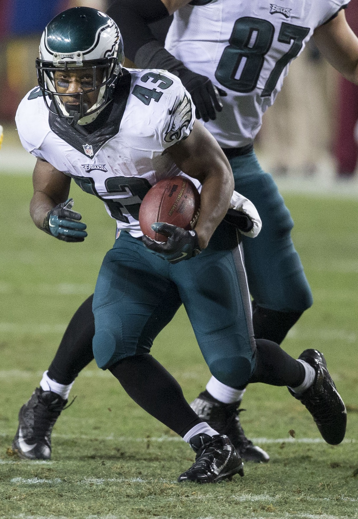 Eagles at Redskins 12/20/14